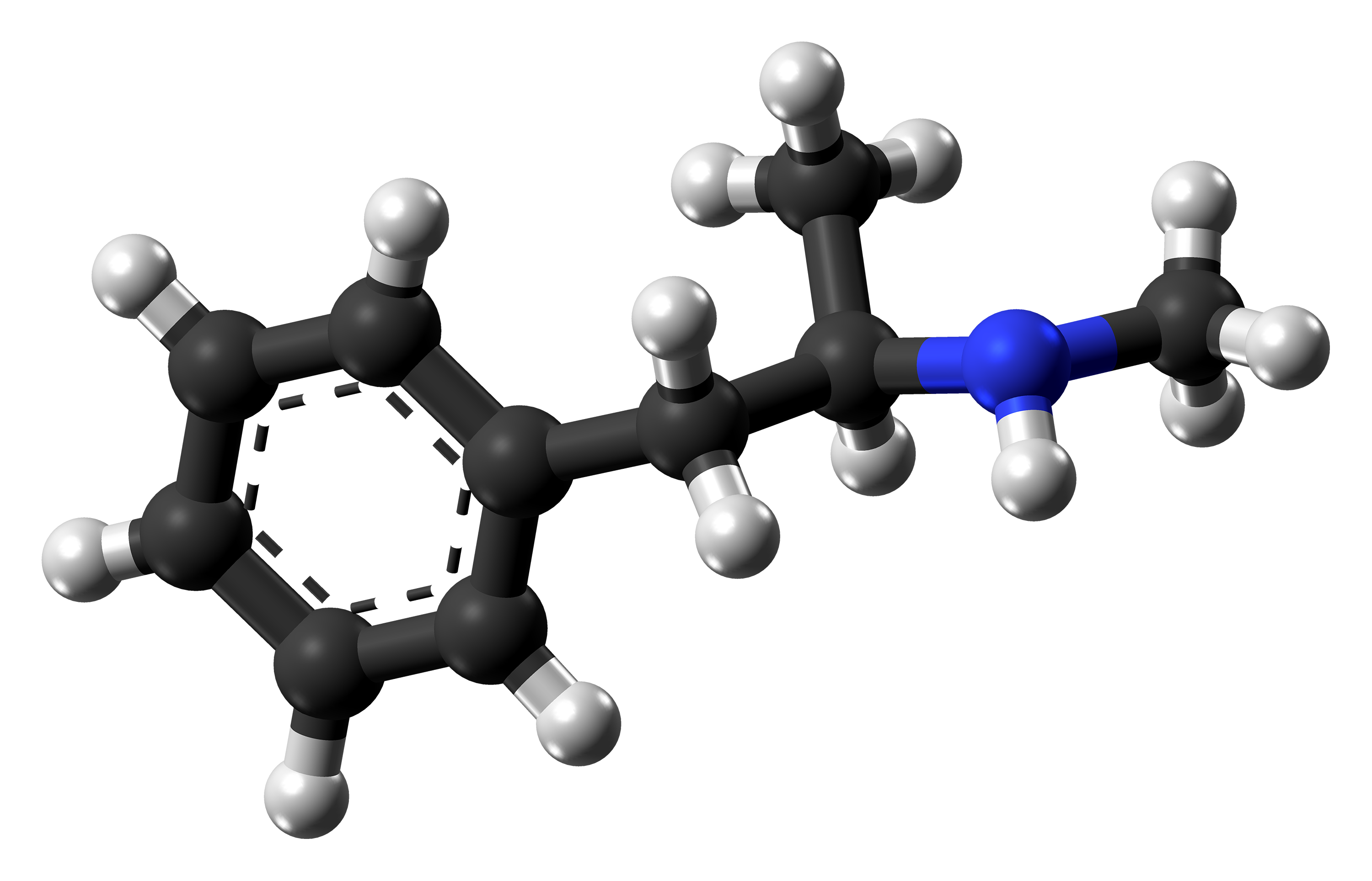 Ball-and-stick model of the methamphetamine molecule, an ingredient in some nasal decongestants, closely related to methamphetamine (with similar psychodynamic effects at high doses). Based on the crystal structure of levomethamphetamine hydrochloride (incorrectly labeled as (+)-methamphetamine), as determined by X-ray diffraction. Color code: Carbon, C: black Hydrogen, H: white Nitrogen, N: blue